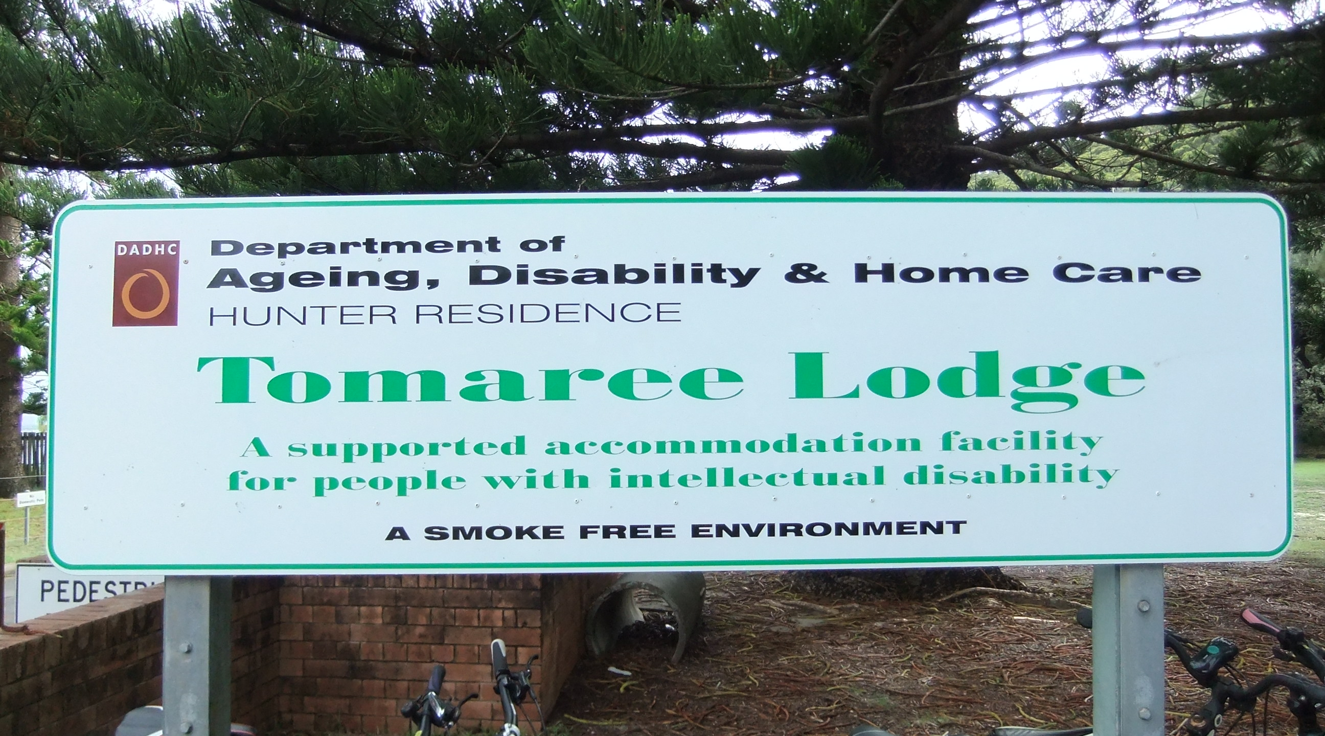 The Tomaree Lodge Sign - Sunday, 2nd March 2014 @ 10:22am.